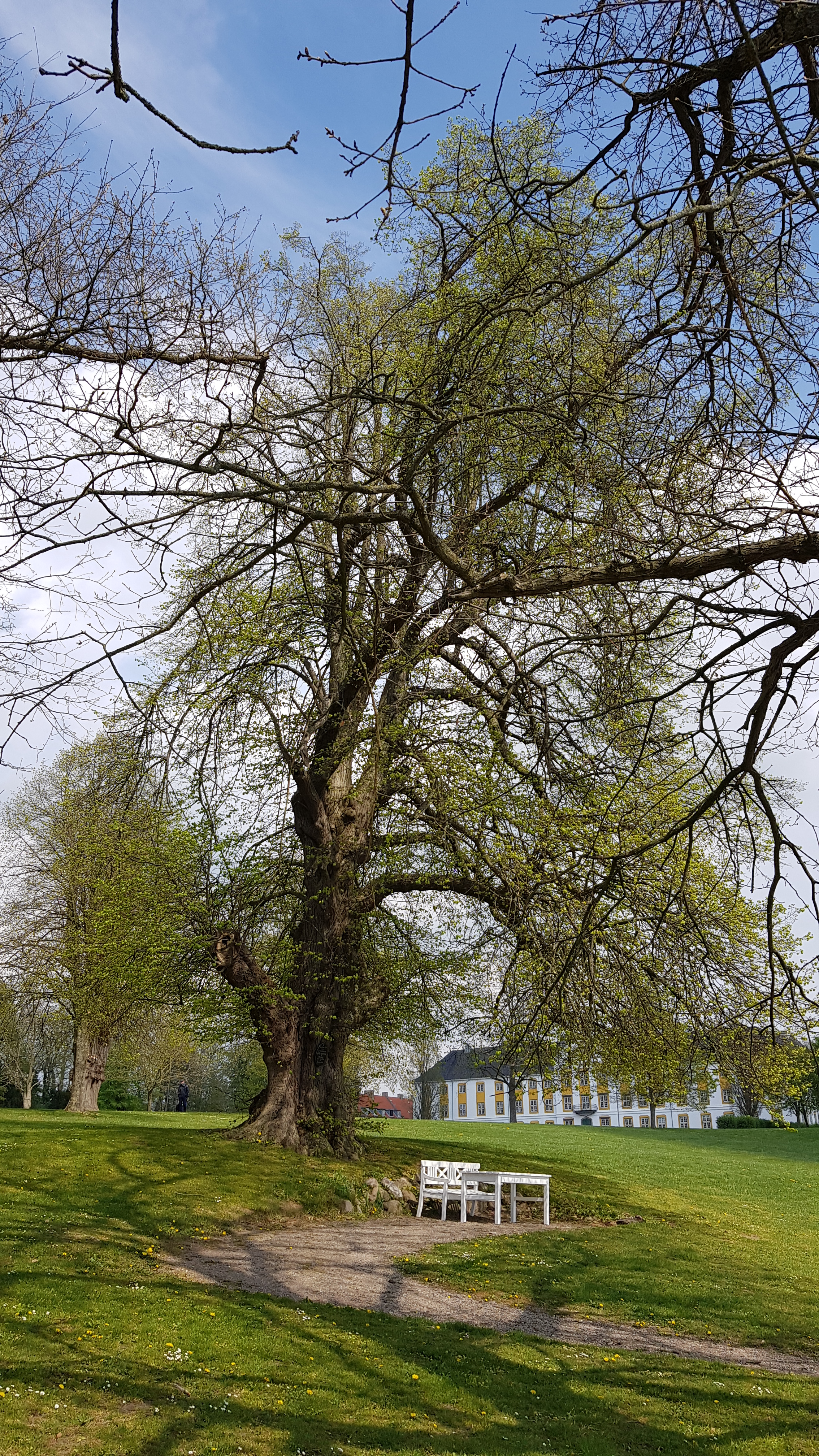 The linden tree in the park at Augustenborg under which H.C.Andersen is saíd to have rested during his time there